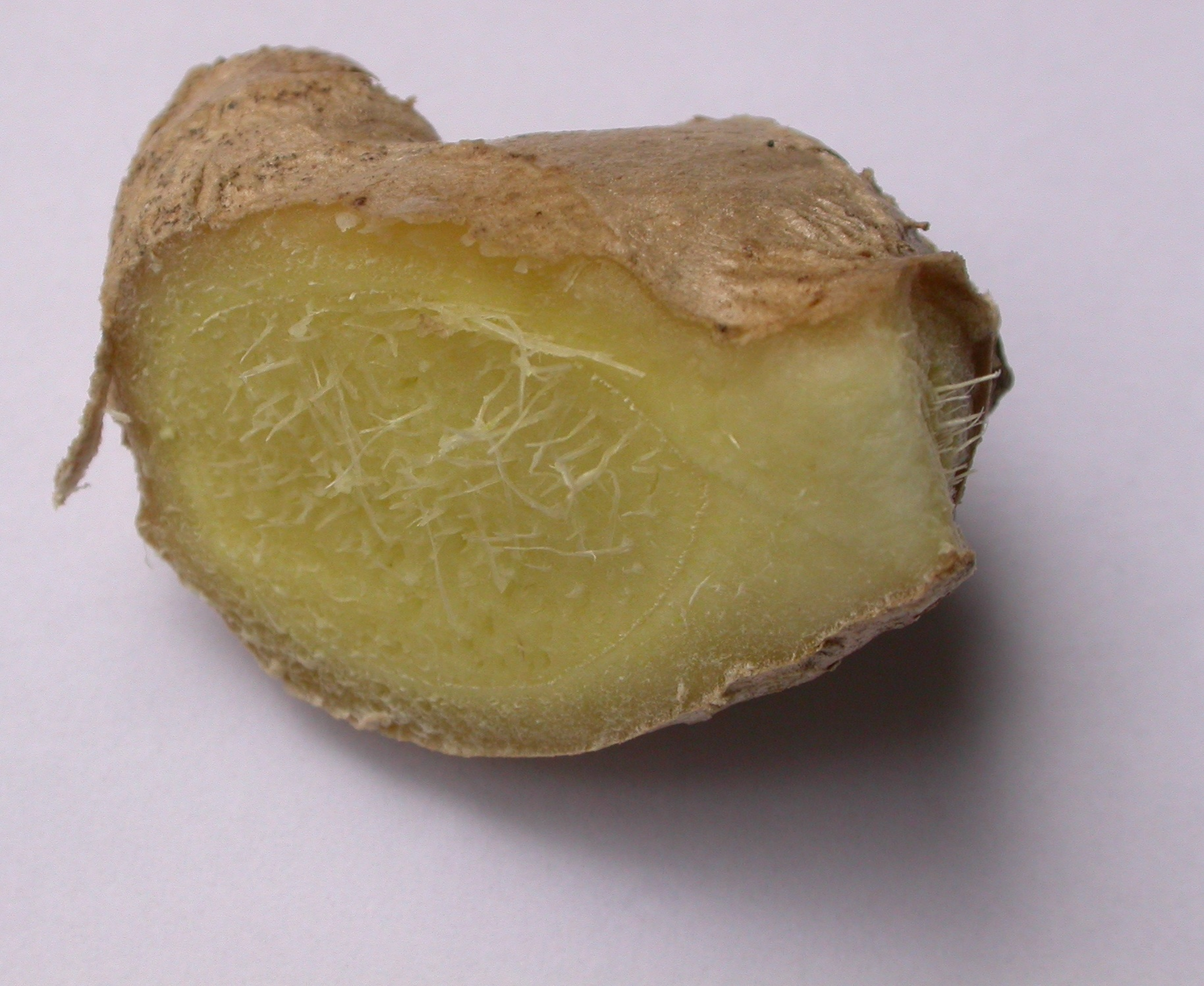 Cross-section of a relatively young ginger root